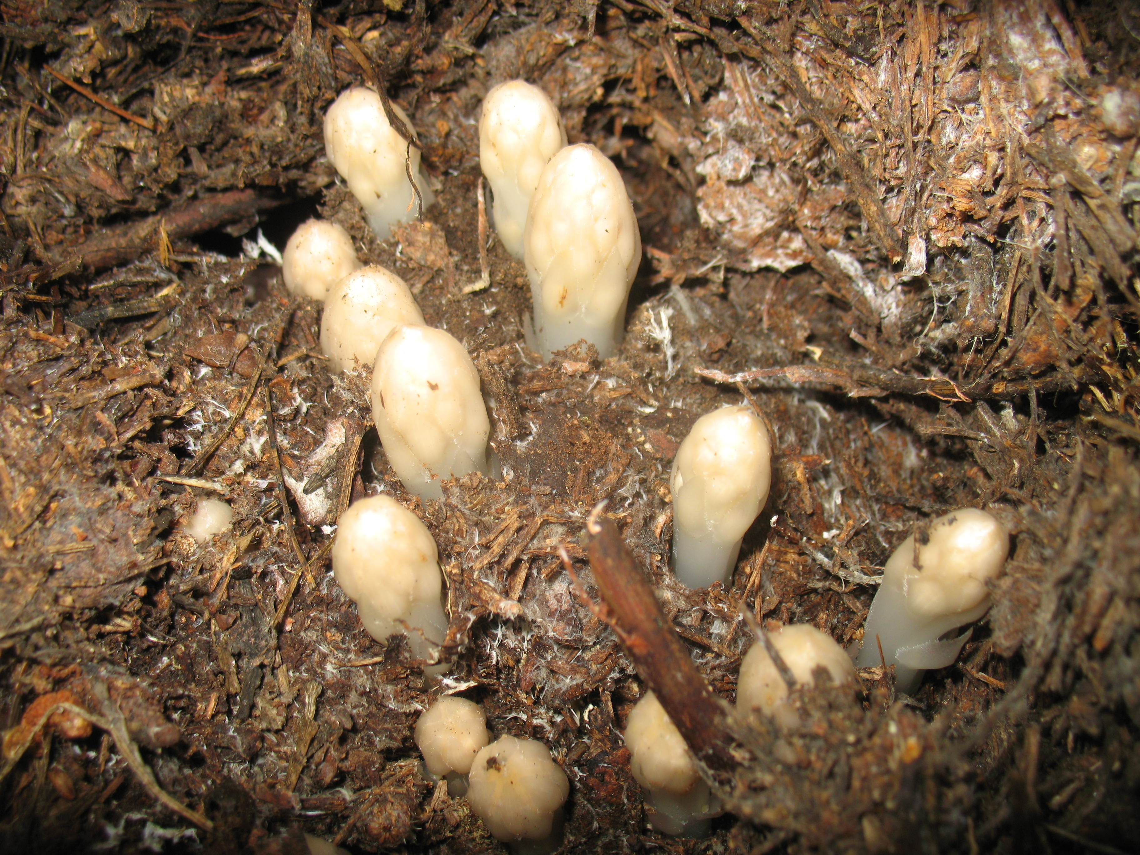 Pityopus californicus from Eastern Shasta-Trinity National Forest, Siskiyou Co., California, USA.